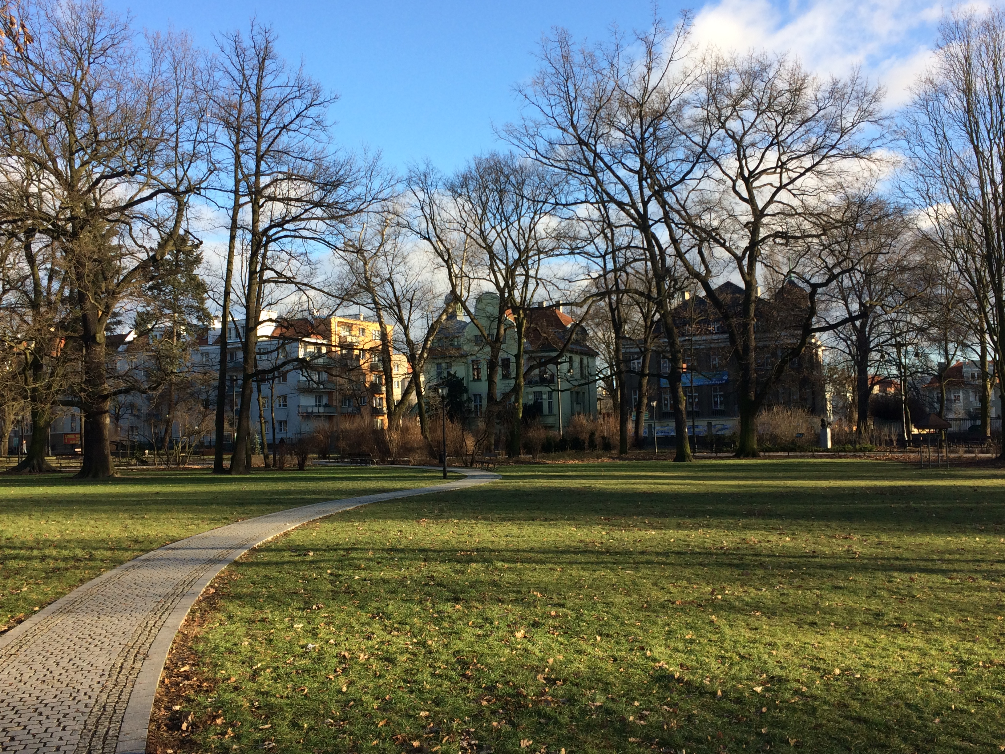 Park Kochanowskiego 3